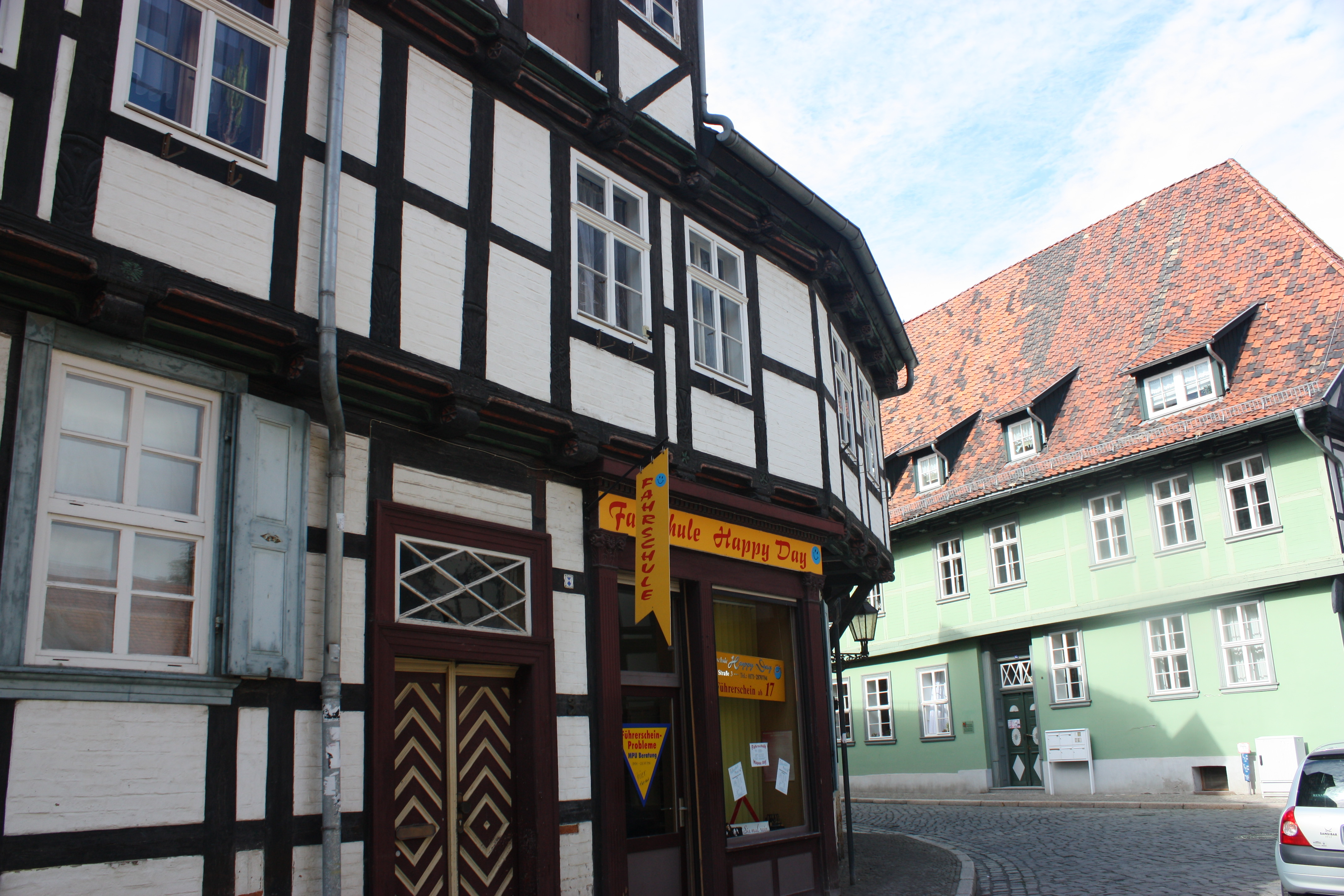 This is a photograph of an architectural monument.It is on the list of cultural monuments of Quedlinburg Hohe Straße 03